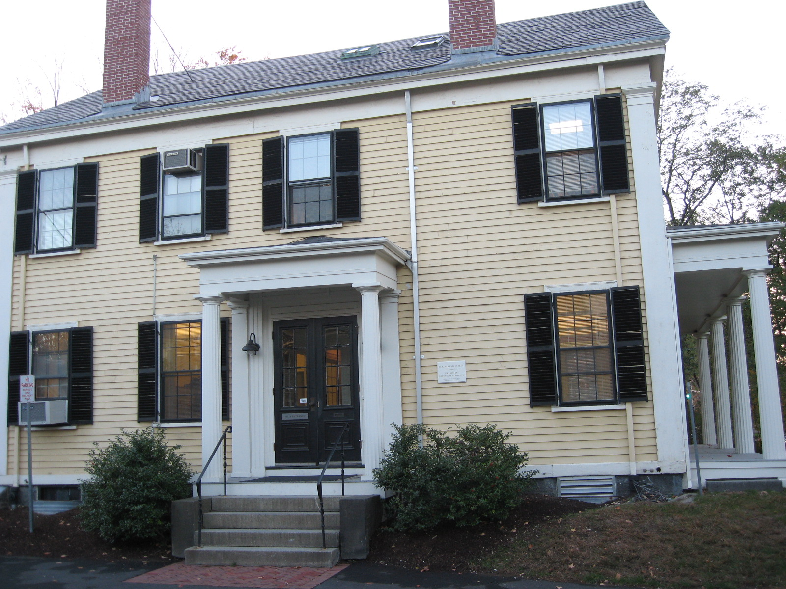 Building of the Harvard Ukrainian Research Institute